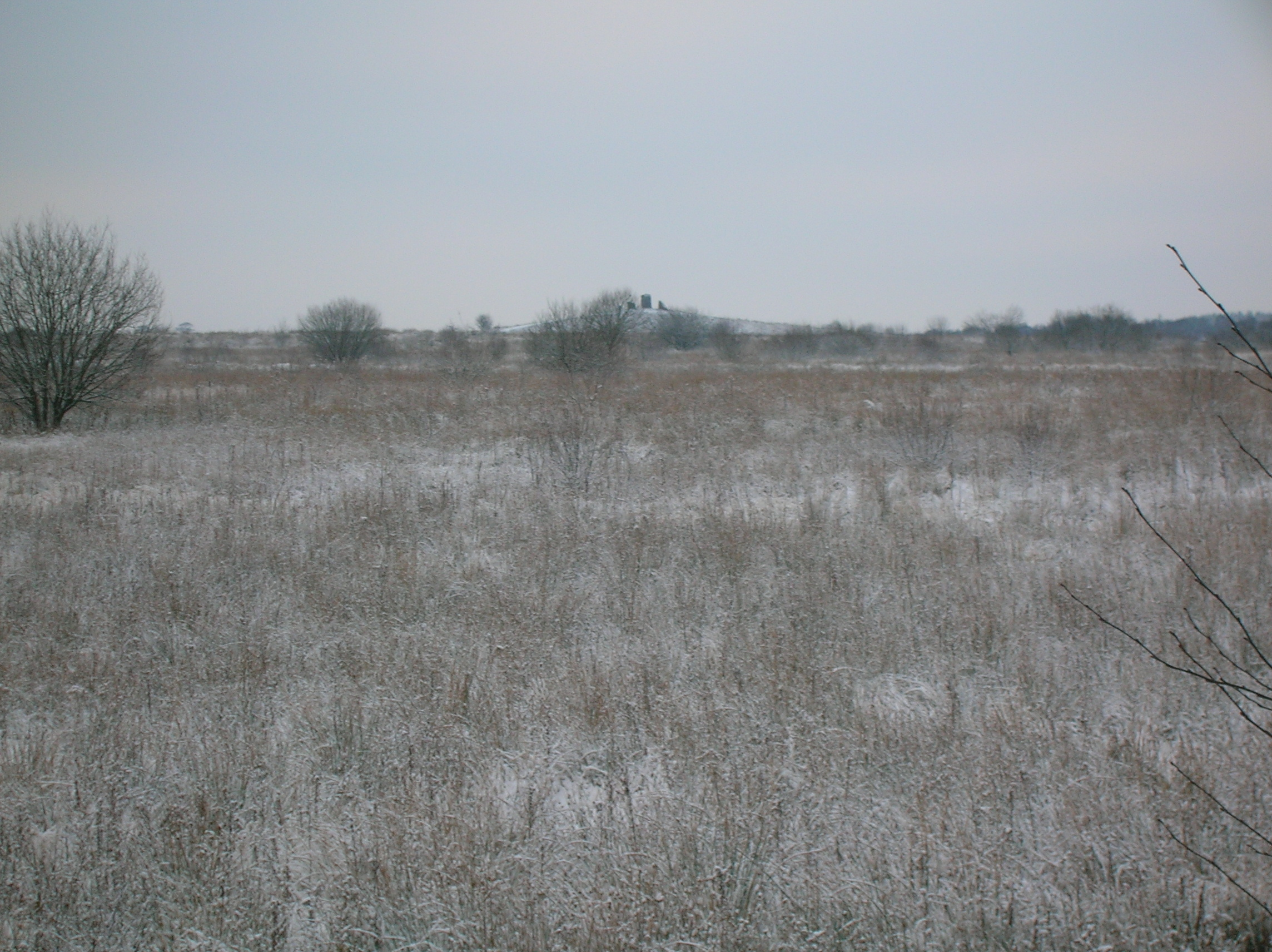 Cairnmount, Eglinton Country Park, Irvine, North Ayrshire, Scotland